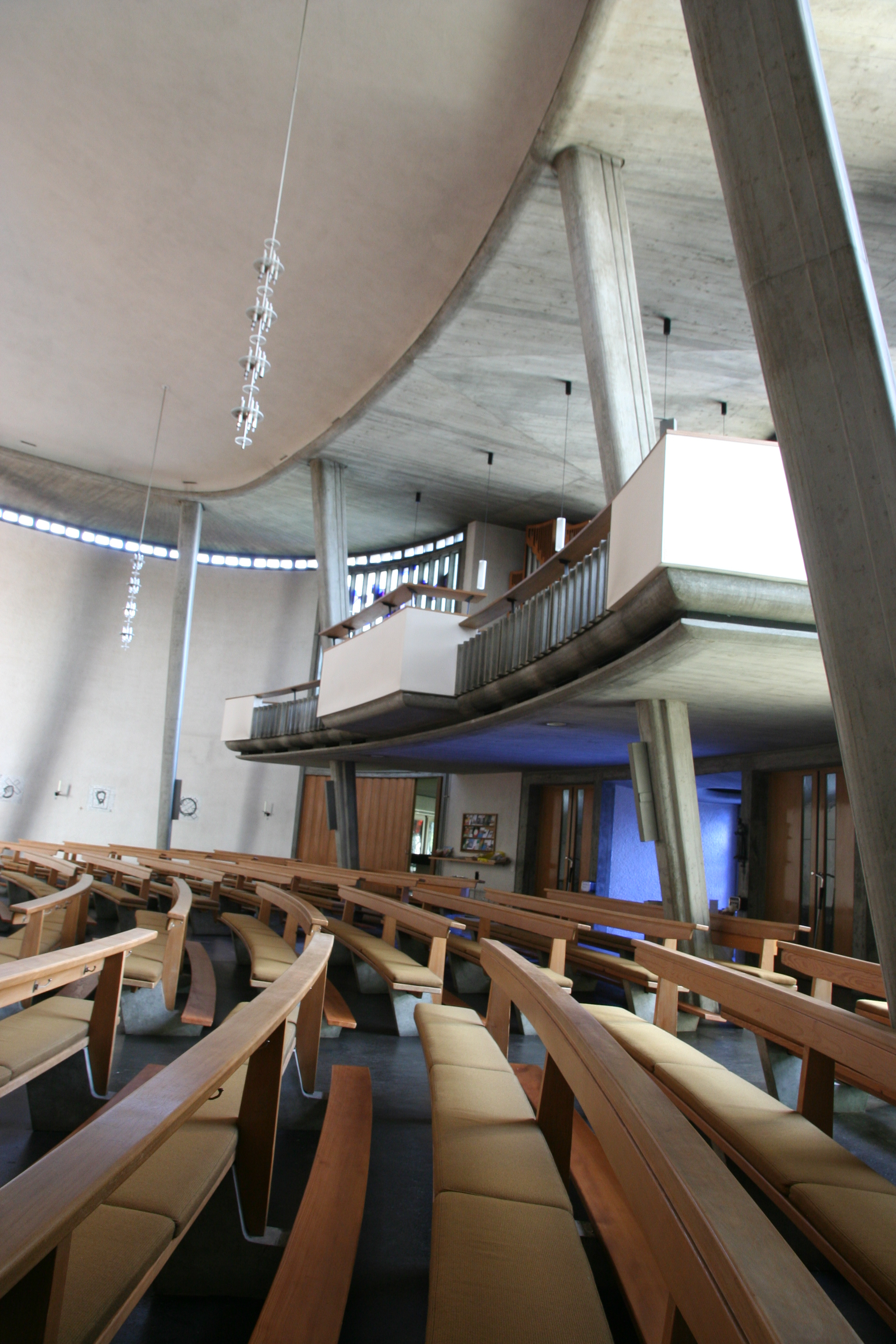 Church Bruder Klaus Gerlafingen, Switzerland